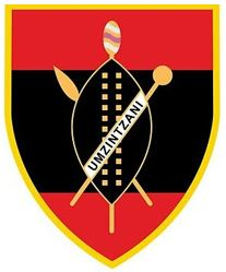 SADF Prince Alfreds Guard shoulder flash